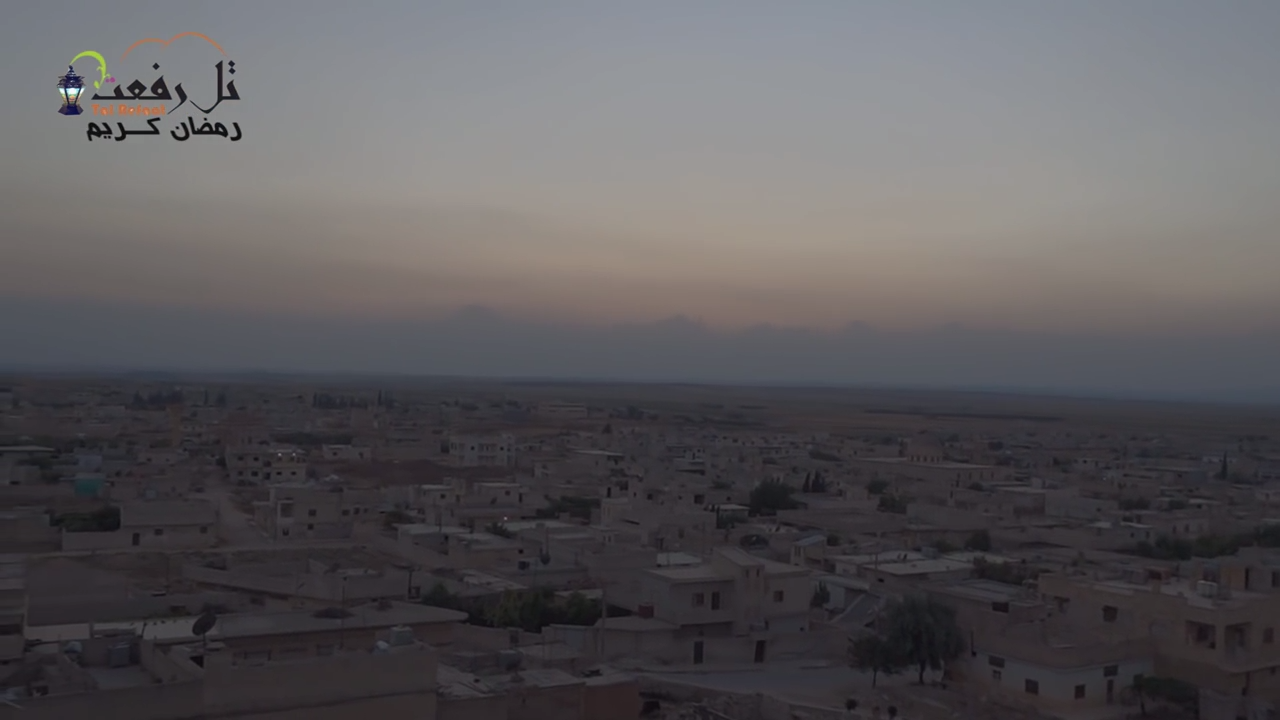 The town of Tell Rifaat in northwestern Syria.